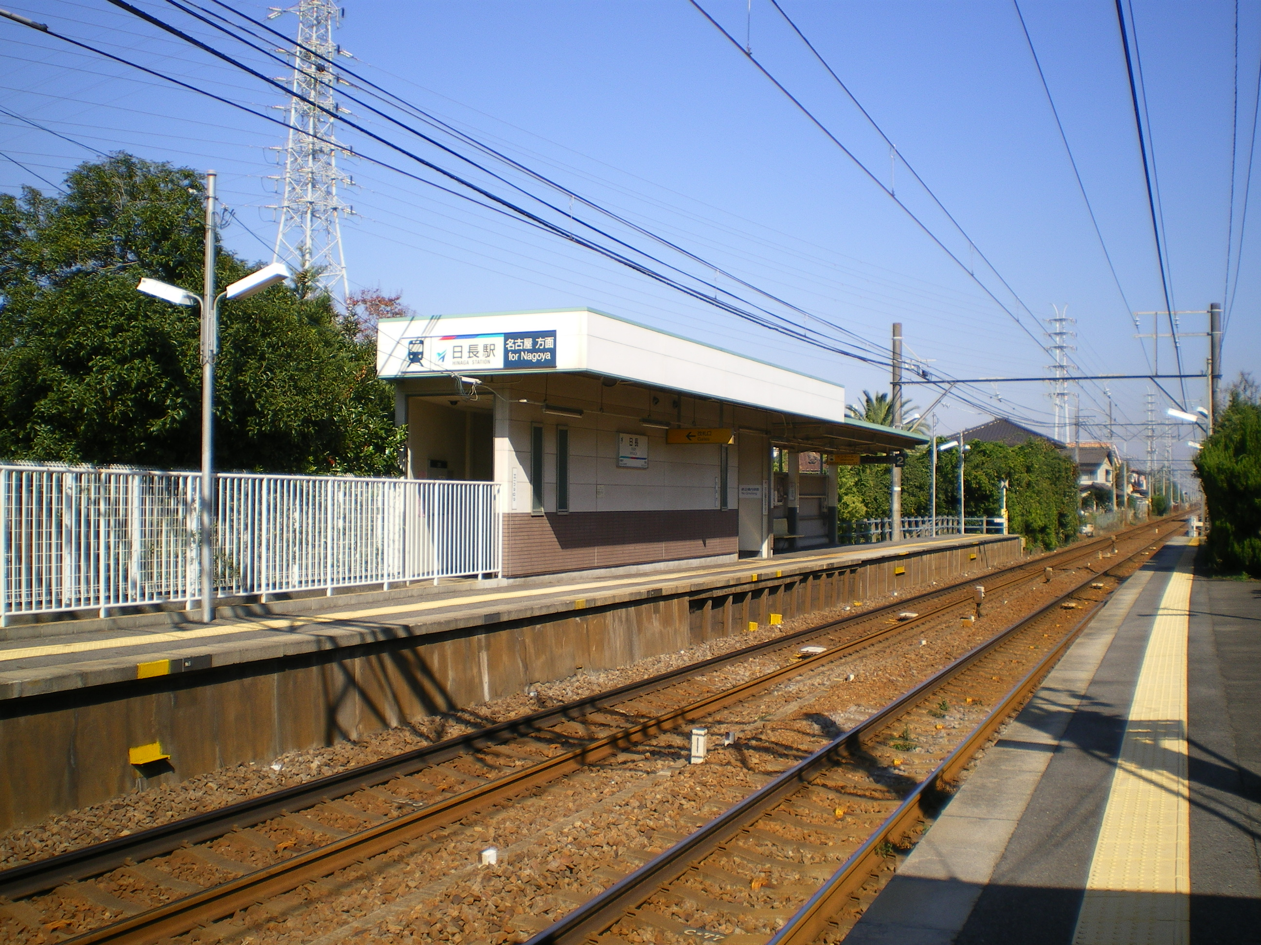 Nagoya Railroad Tokoname Line Hinaga Station Building (for Ōtagawa)